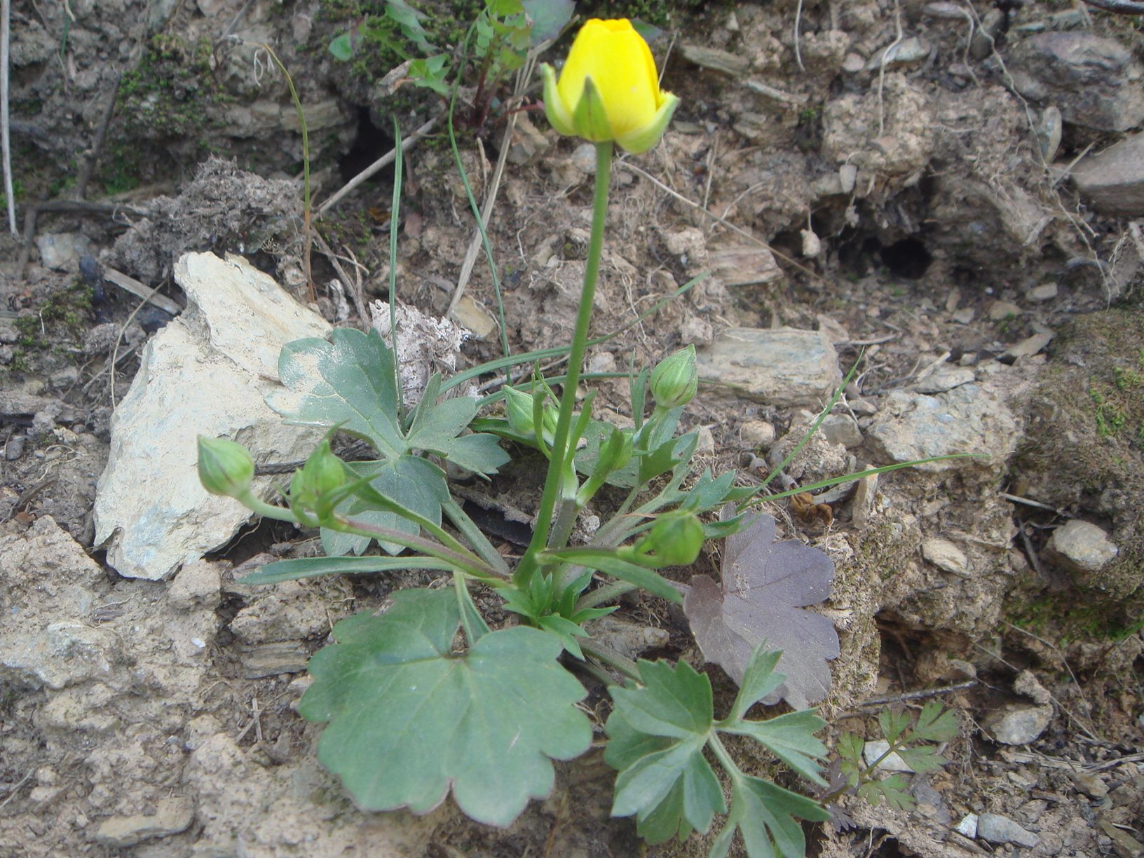 Jersey buttercup, Spain, Ceuta.